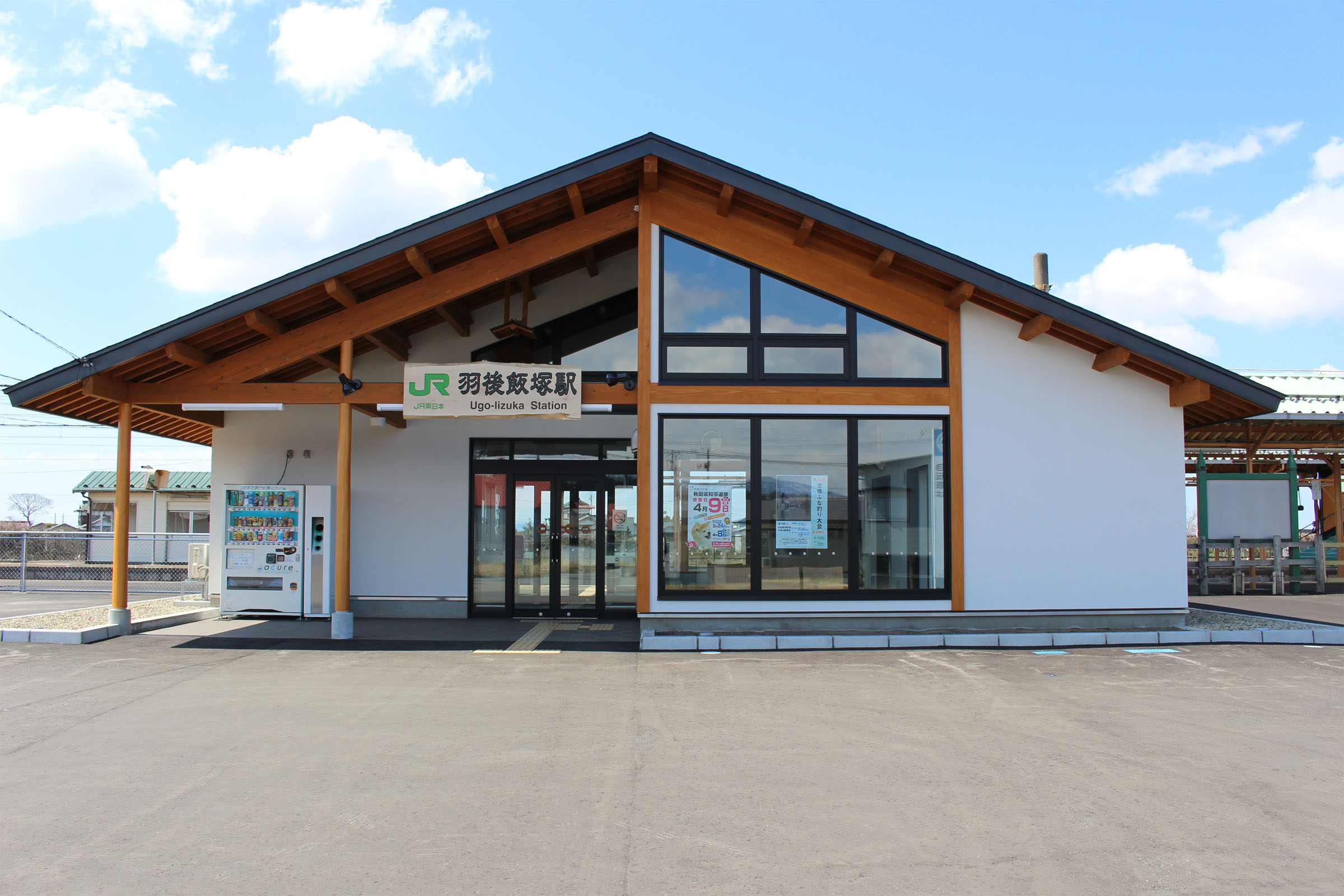 Ugo-Iizuka Station on the Ou Main Line